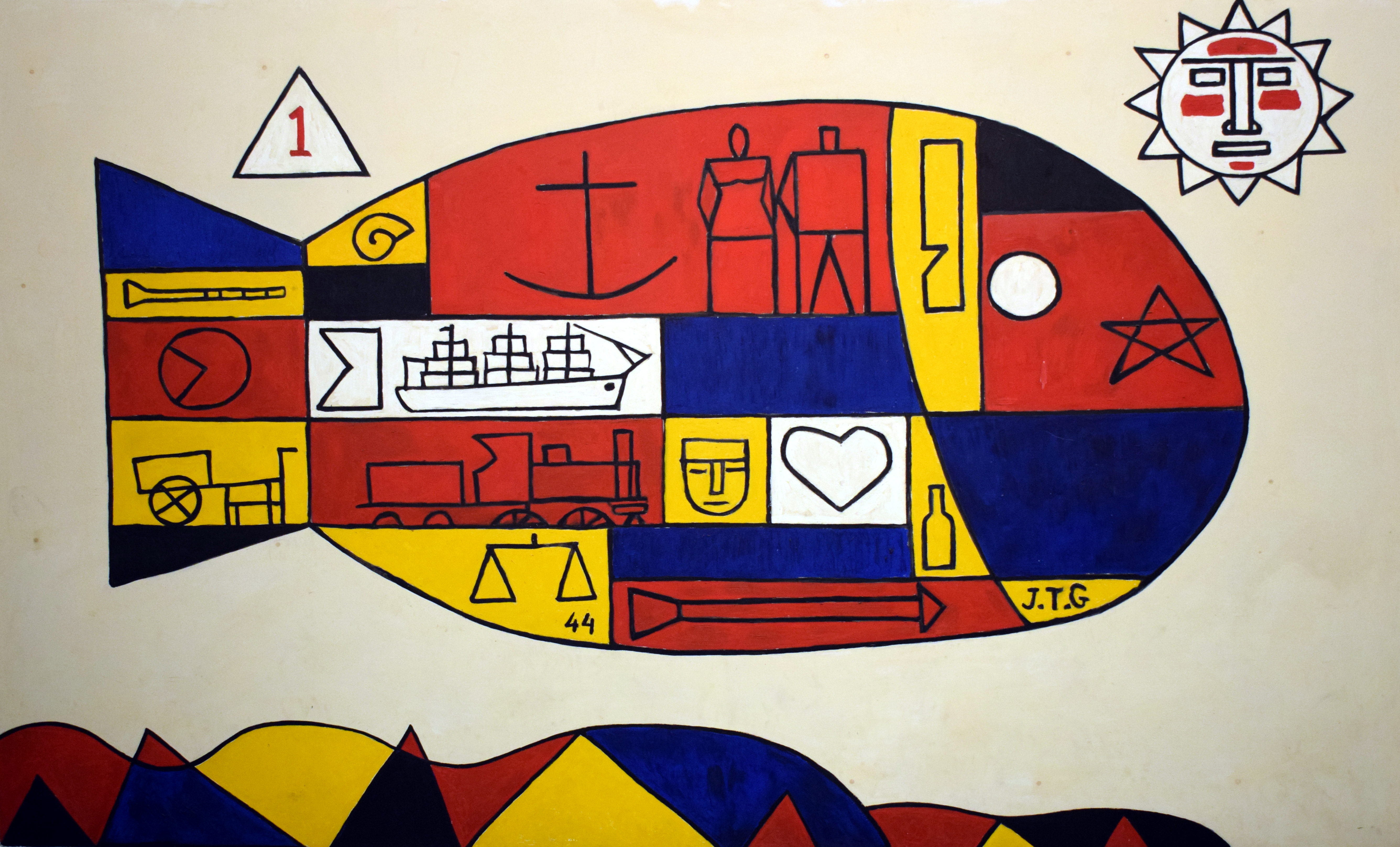 Destroyed in the fire of the Museo de Arte Moderna do Rio de Janeiro on July 8th, 1978